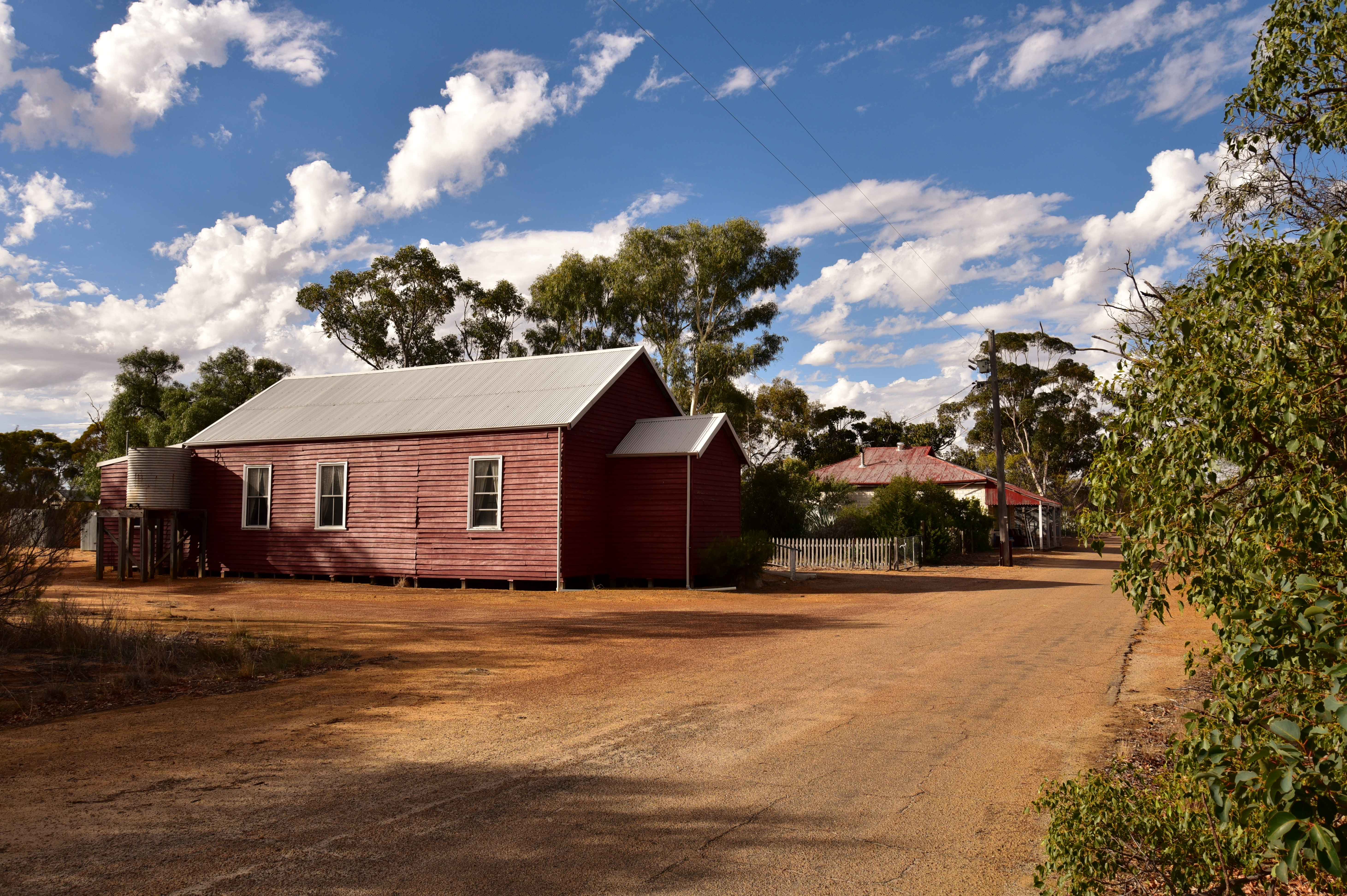 View of Railway Street, the main (and pretty much only), street of Pantapin, Western Australia